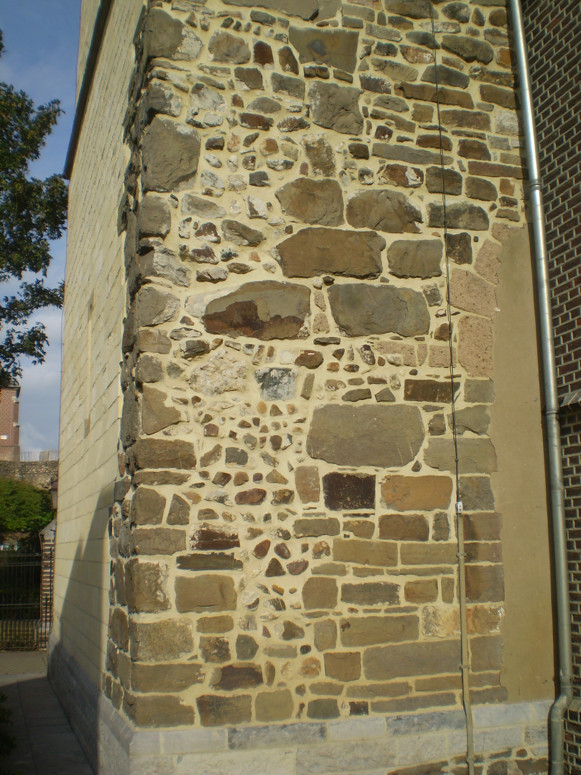 Ancient wall of a 12th-century tower, integrated in the present church of Kessenich (Belgium)